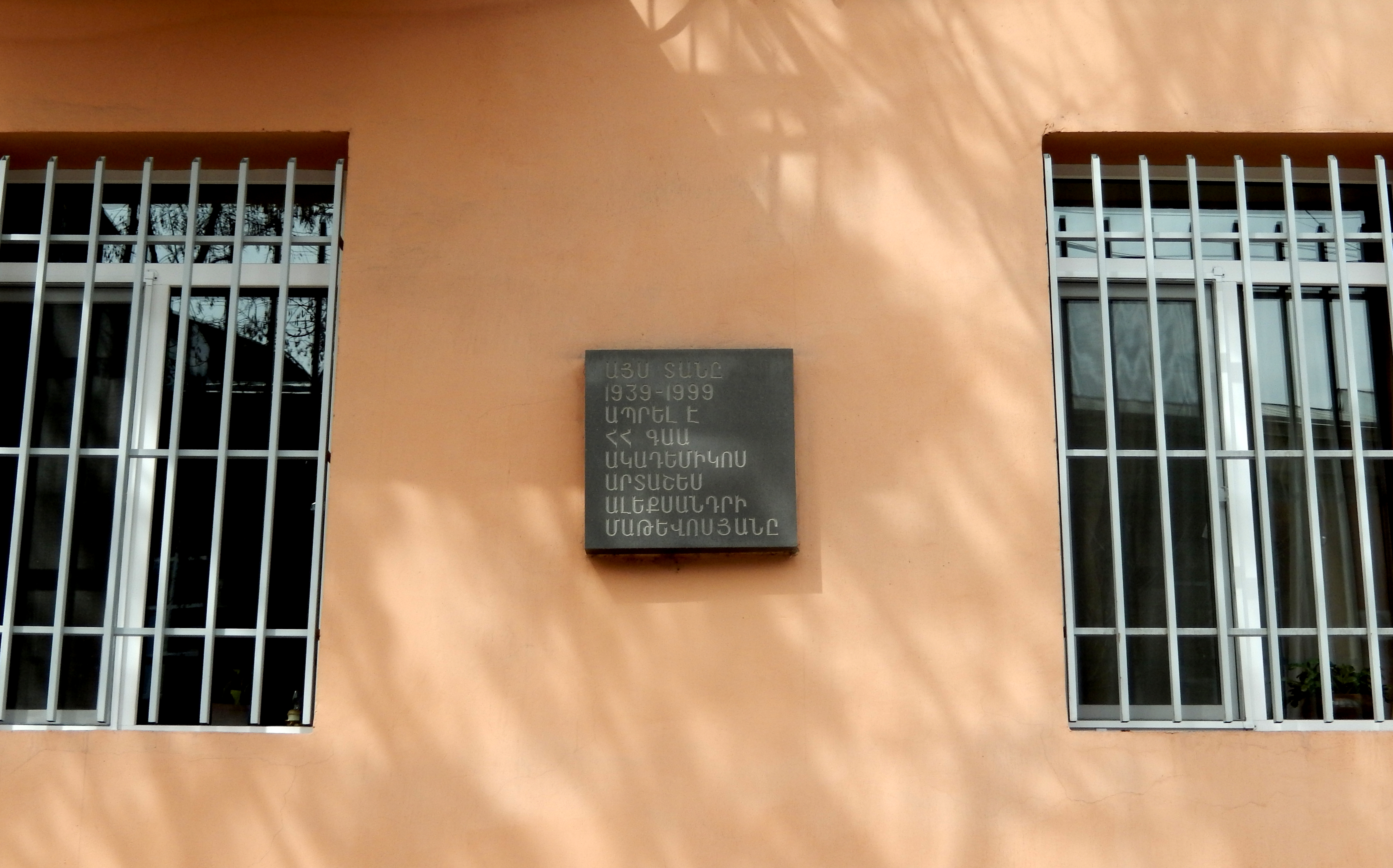 Artashes Alexandr Matevosyan plaque inYerevan